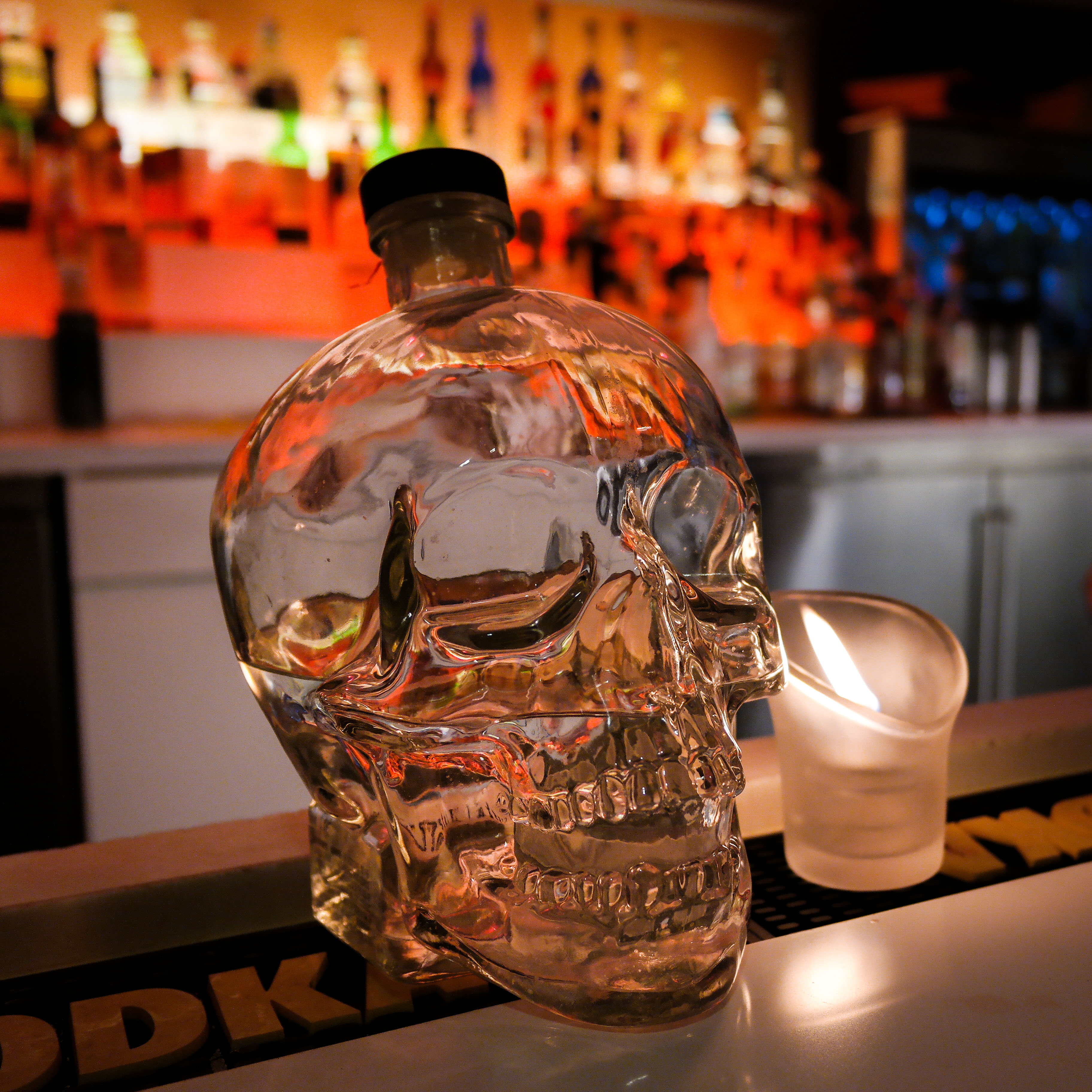 A bottle of Crystal Head vodka on the bar at the Hyatt Palm Springs